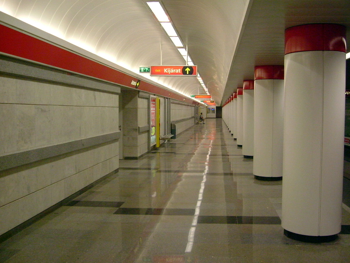 Astoria station on Budapest metro line 2